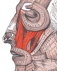 Edit of Levator labii superioris.png, cropped